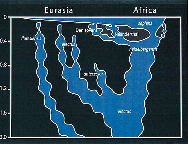 Chris Stringers' hypothesis of the family tree of genus Homo, published in Stringer, C. (2012). "What makes a modern human". Nature 485 (7396): 33–35. "Homo floresiensis originated in an unknown location from unknown ancestors and reached remote parts of Indonesia." "Homo erectus spread from Africa to western Asia, then east Asia and Indonesia. Its presence in Europe is uncertain, but it gave rise to Homo antecessor, found in Spain." "Homo heidelbergensis originated from Homo erectus in an unknown location and dispersed across Africa, southern Asia and southern Europe." "Homo sapiens spread from Africa to western Asia and then to Europe and southern Asia, eventually reaching Australia and the Americas." "After early modern humans left Africa around 60,000 years ago (top right), they spread across the globe and interbred with other descendants of Homo heidelbergensis," namely Neanderthals, Denisovans, and unknown archaic African hominins.